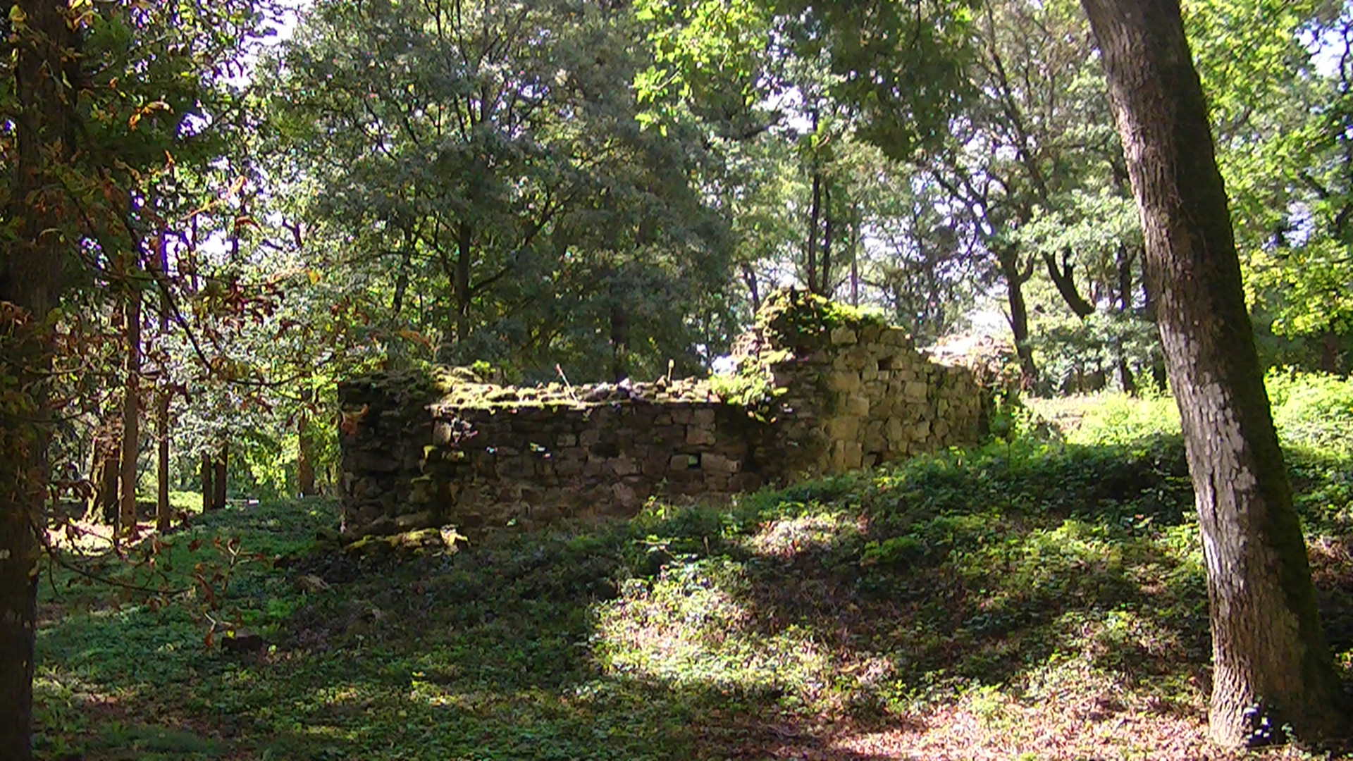 Ruins of the chapel in the Chateau de Champtoceaux .